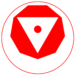 Impression of obsolete logo used by Neo Sannyas International